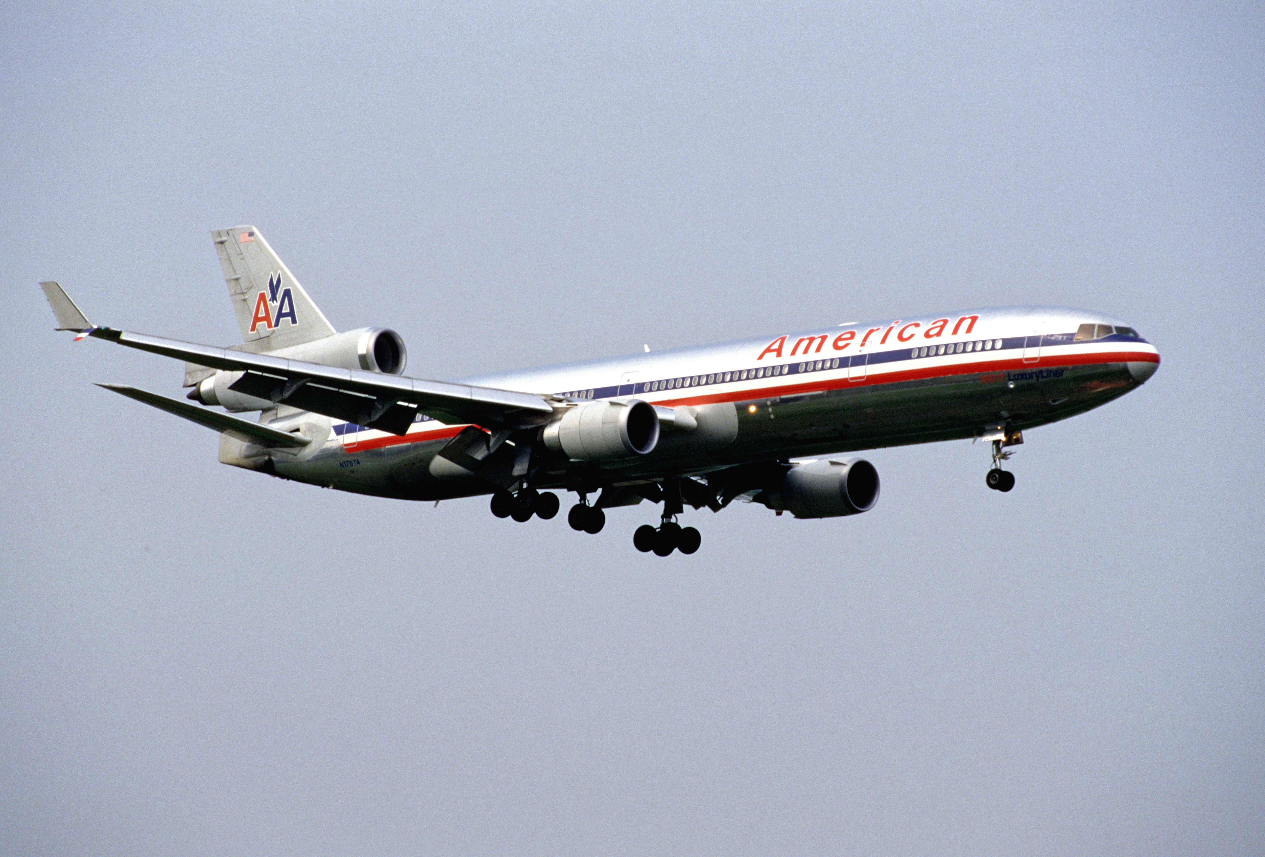 American Airlines MD-11 N1767A in the 90's.